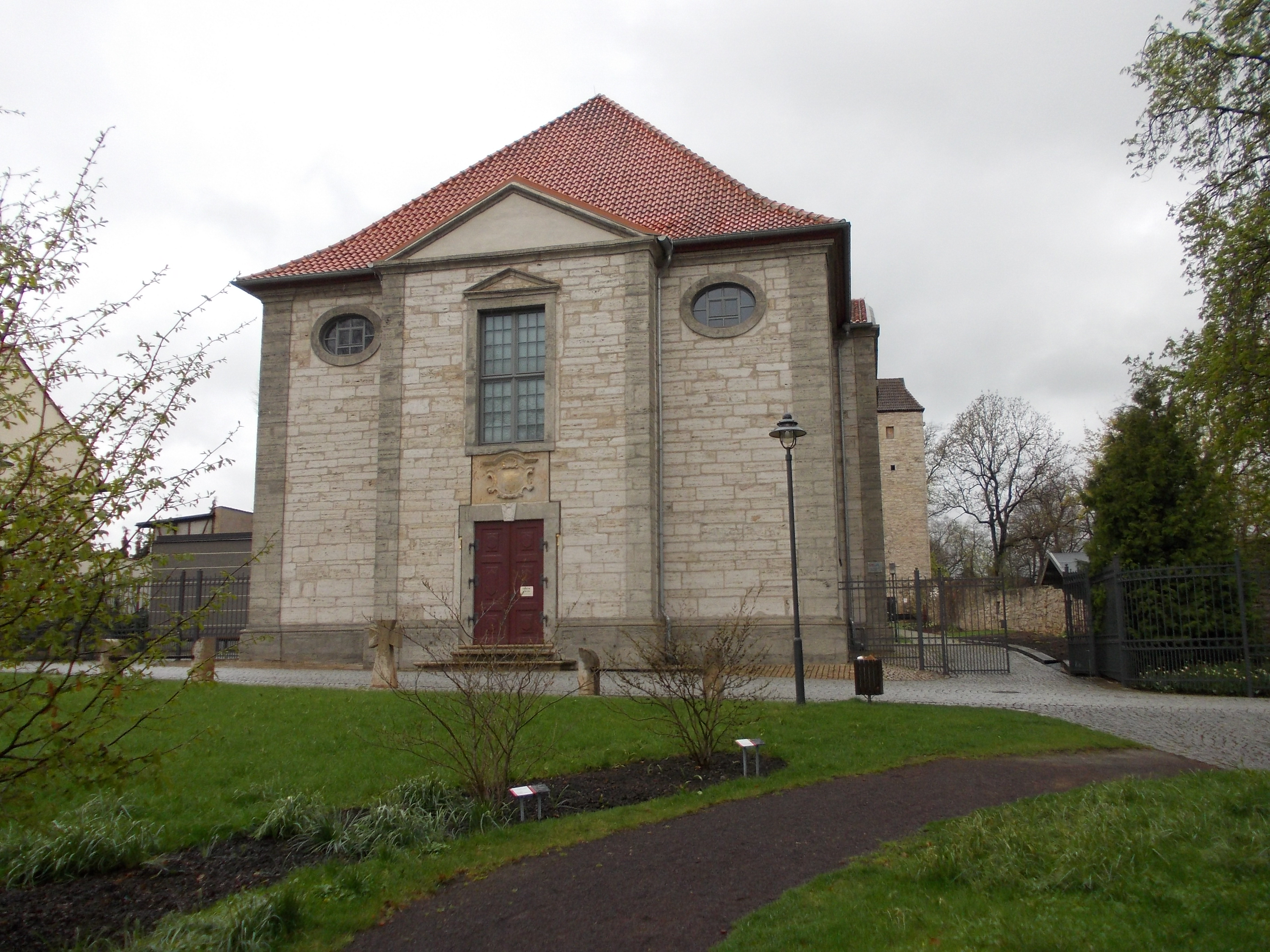 Holy Trinity God's Acre Church in Bad Langensalza (Unstrut-Hainich-Kreis, Thuringia)